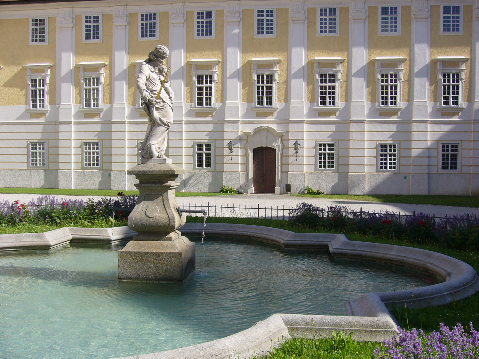 Garden of Seitenstetten Abbey, Lower Austria